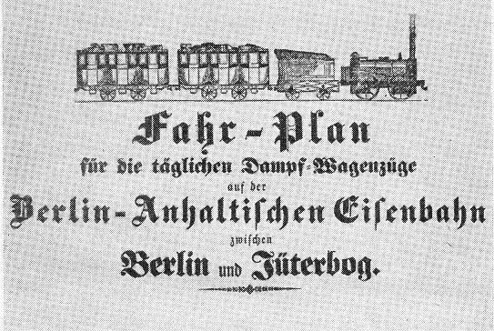 Time table from 1848 by the „Berlin-Anhaltische Eisenbahn-Gesellschaft“ (train company in Germany)